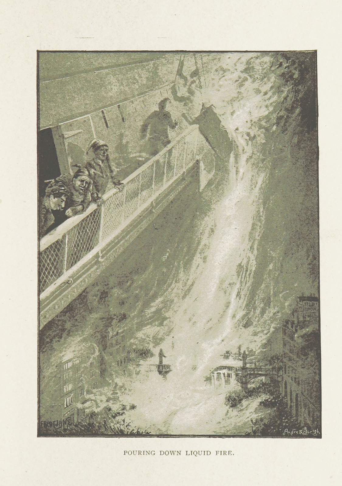 Pouring down liquid fire. Image taken from page 169 of 'Hartmann the Anarchist, etc. [A novel.]' Published 1892.